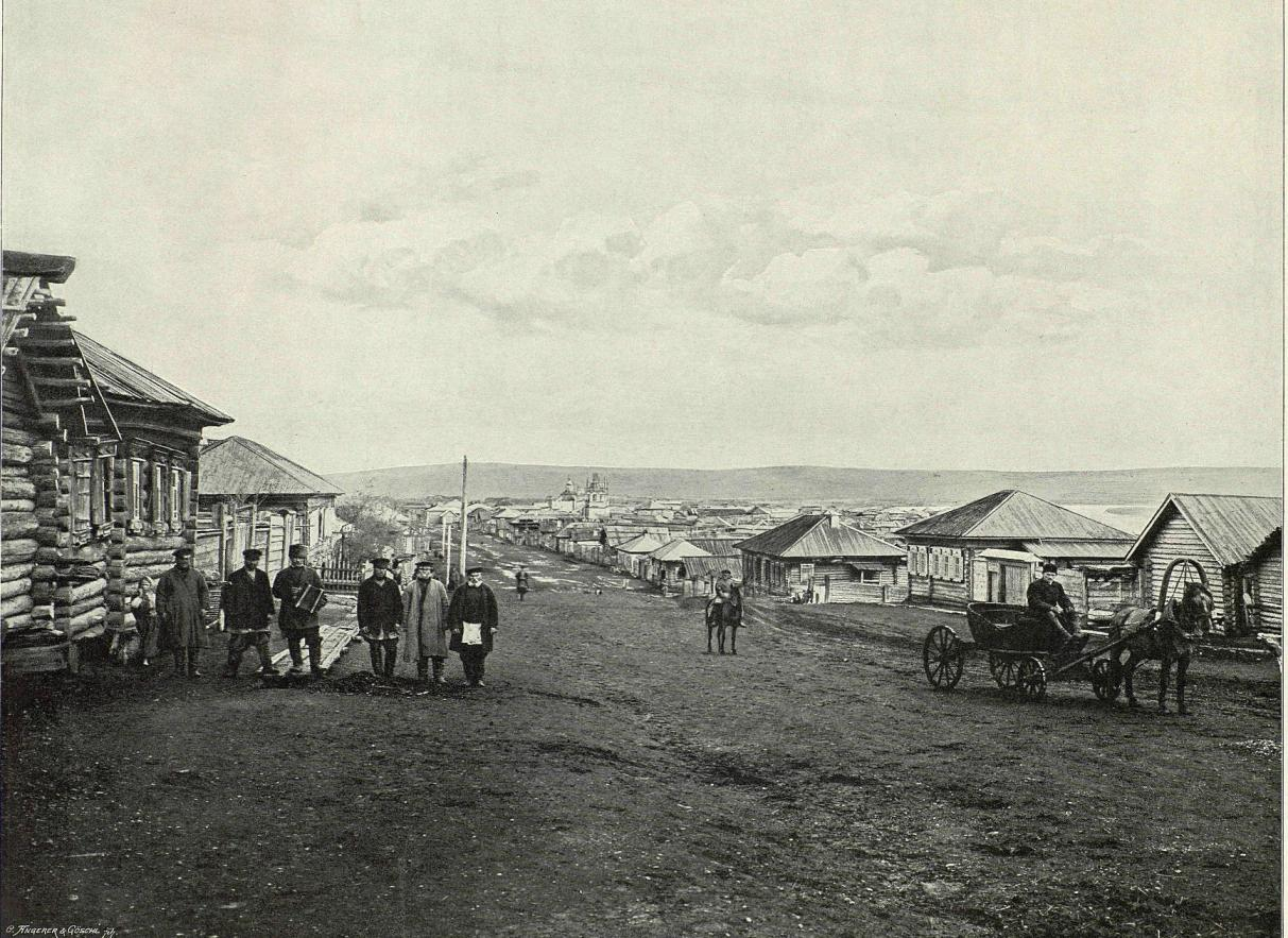 «Great Path - Views of Siberia and Great Siberian Railway» book, 1899